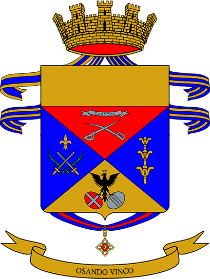 Coat of Arms of the 66° Infantry Regiment; Italian Army.